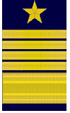 Military rank insignia, here the sleeve insignia of the Grossadmiral (Grand admiral OR-10) of the German Kriegsmarine in WW II.